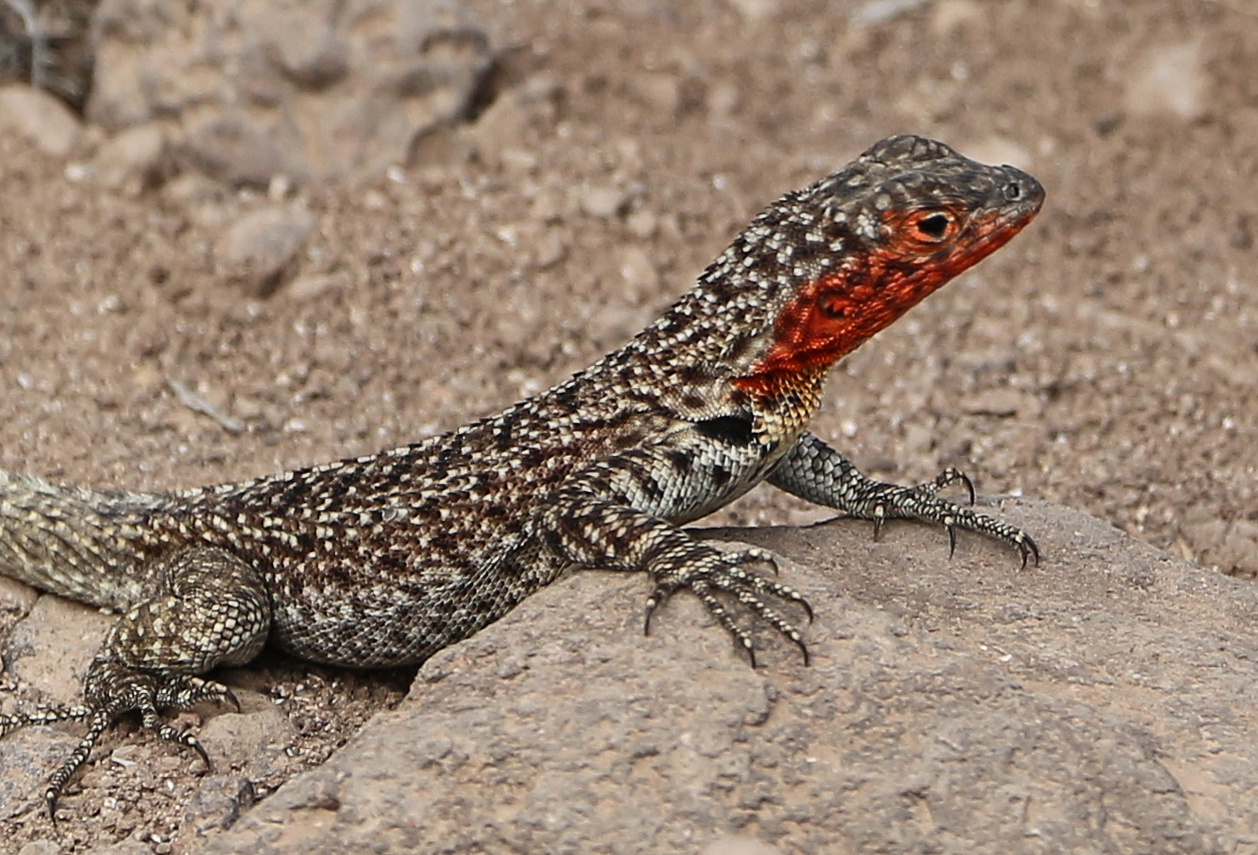 Female Galápagos Lava Lizard (Microlophus albermarlensis barringtonensis) in Santa Fe Island, Galápagos National Park, Ecuador